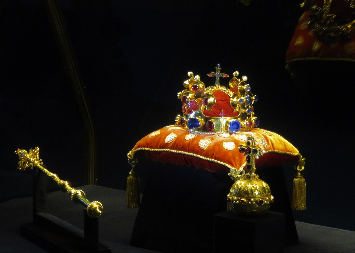 Coronation jewels of the Kingdom of Bohemia during its exhibition in May, 2016.